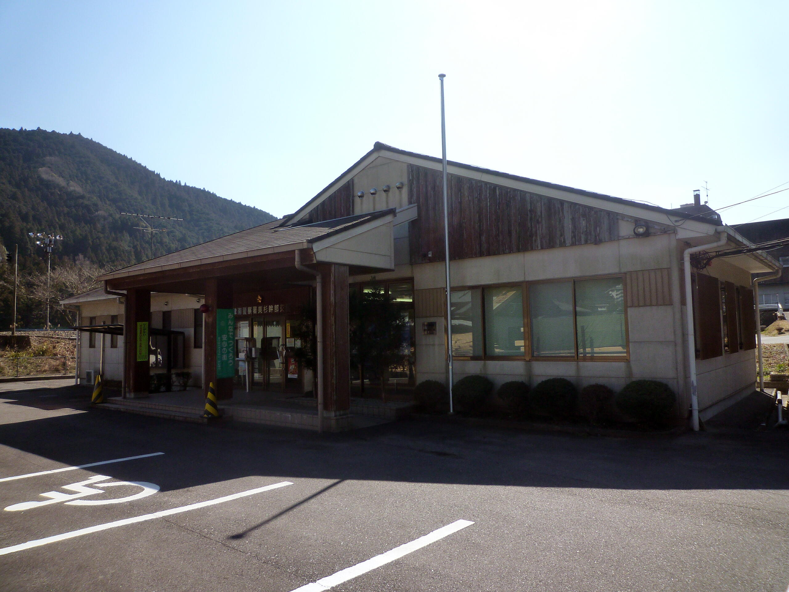 The "Tsu-Minami Police station Misugi Kanbu Kōban" in Yachi, Misugi-chō, Tsu City, Mie Prefecture, Japan.